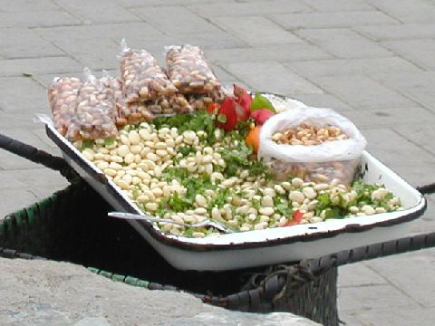 A peruvian "Chocho" or "Tarwi" (Lupinus mutabilis)